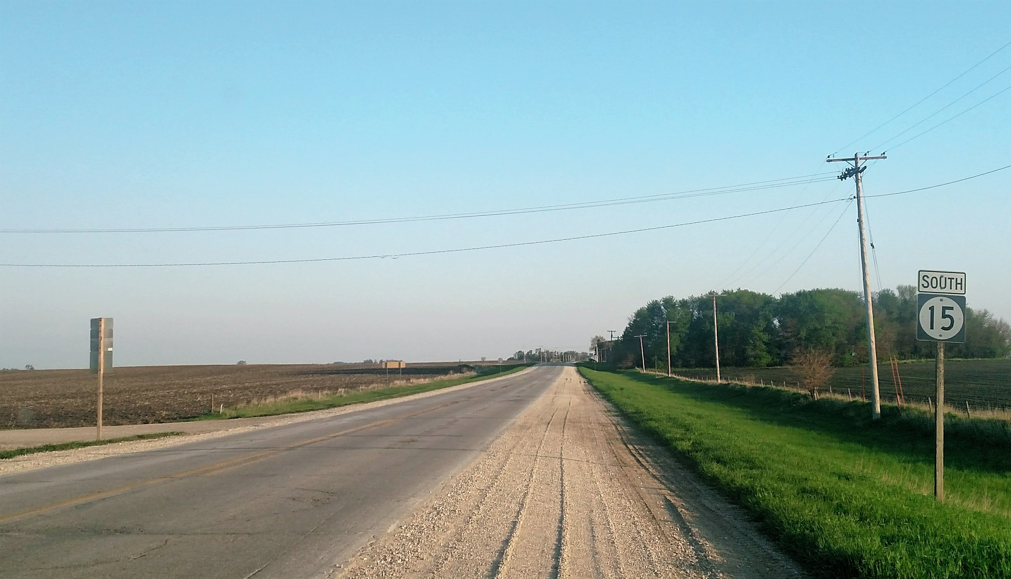 Iowa Highway 15 on the western edge of Rolfe just south of an intersection with Broad Street